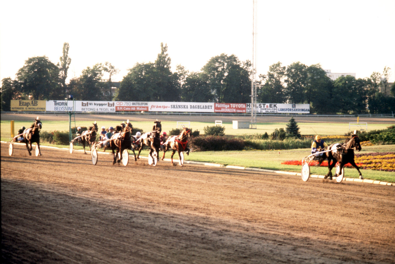 Express Gaxe and Gunnar Axelryd wins Swedish Trotting Derby 1977.